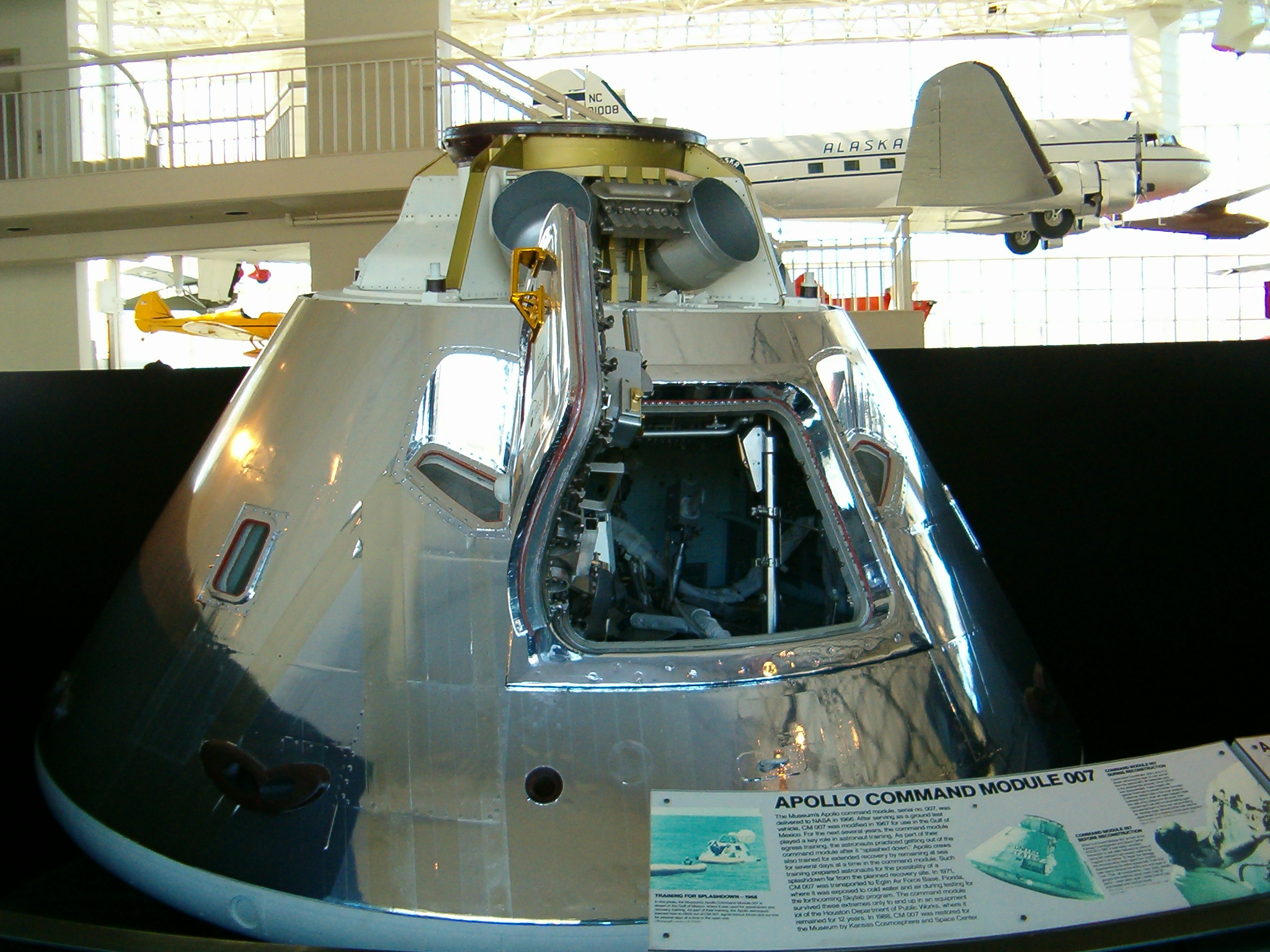 An unused Apollo Command Module in the Museum of Flight, Seattle WA. CM-007, Block I capsule used for water egress training, modified to represent the Block II version with quick-escape hatch, seats and aluminized coating.